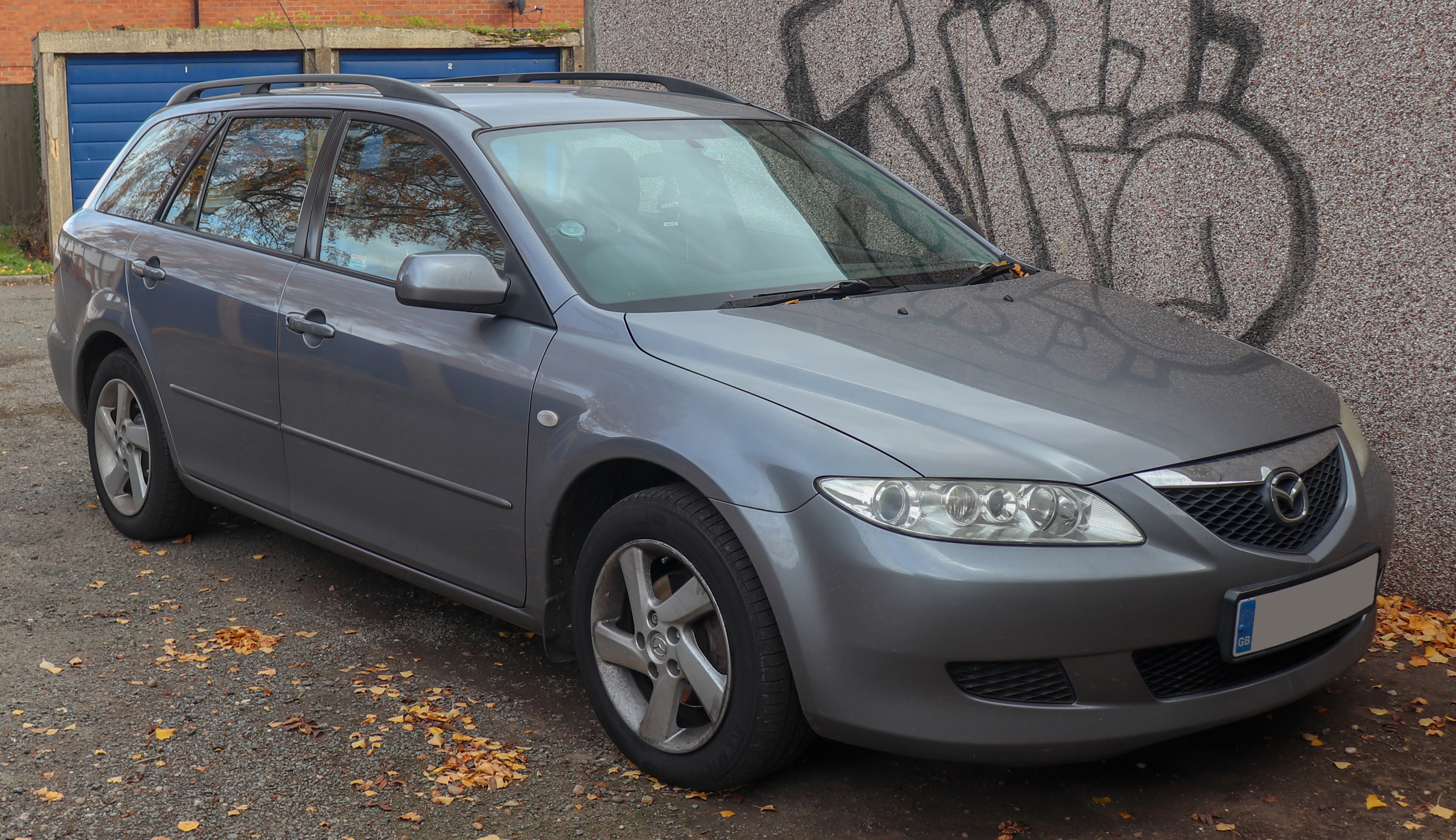 2004 Mazda6 TS Estate 2.0 Front Taken in Warwick